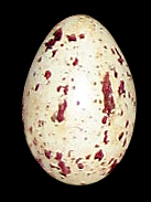 Just hatched on 5/29/2007